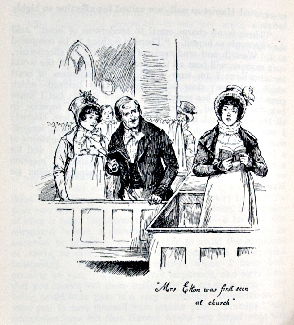 "Mrs Elton was first seen at church" - Austen, Jane. Emma. London: George Allen, 1898, page 278.